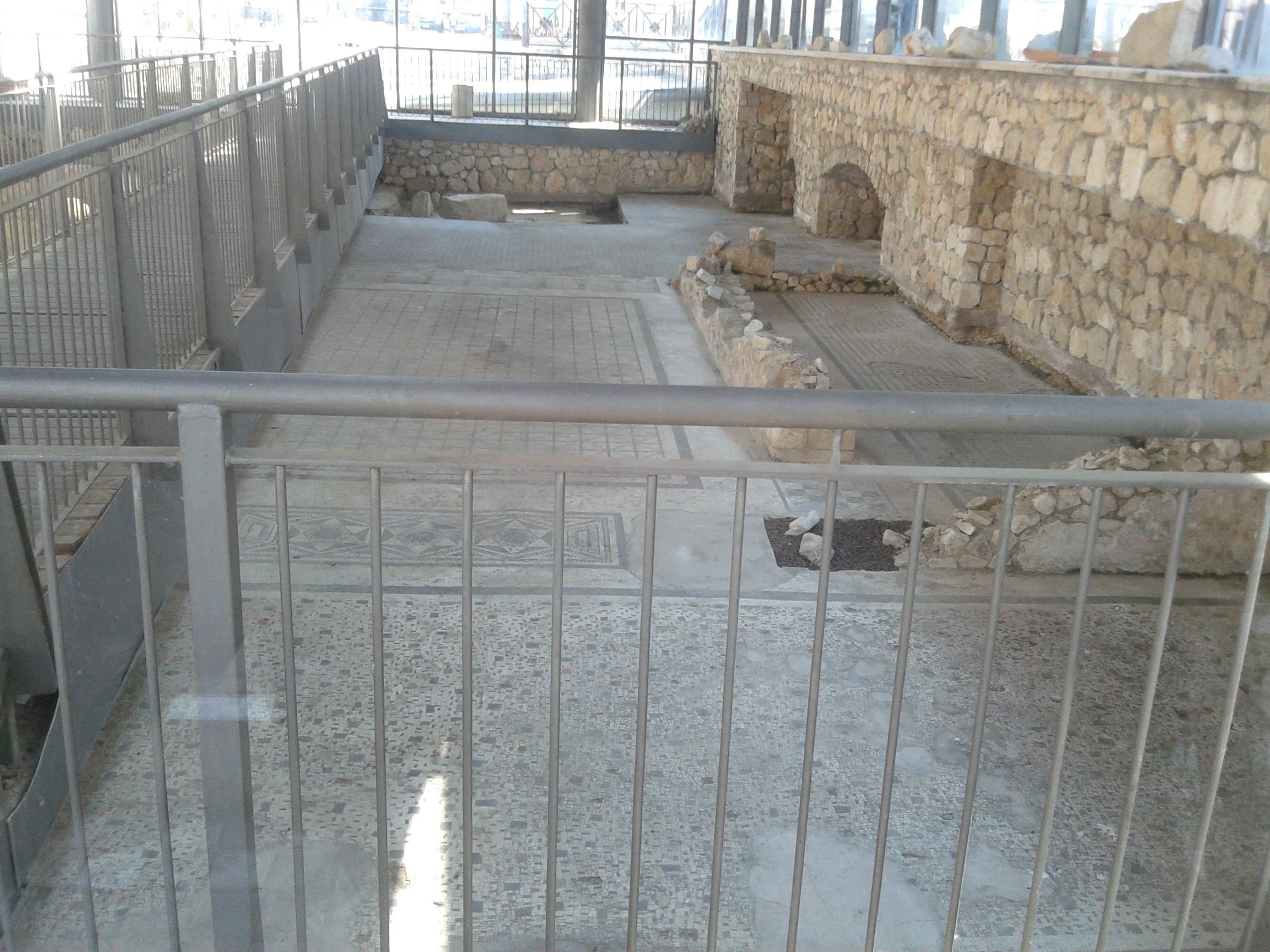 Domus roman times (I sec. a.C. - I sec. d.C.), San Benedetto dei Marsi, Abruzzo, Italy